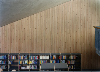 Lundebrekke_HINT: skal krediteres fotografen Vegar Moen